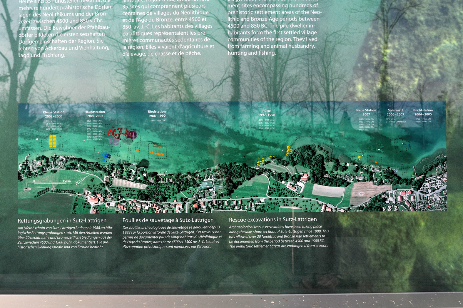 Diving base of the Archaeological service of the canton of Berne at the von Rütte estate in Sutz-Lattrigen; Berne, Switzerland. Right info window; overview of the sites in Sutz-Lattrigen.